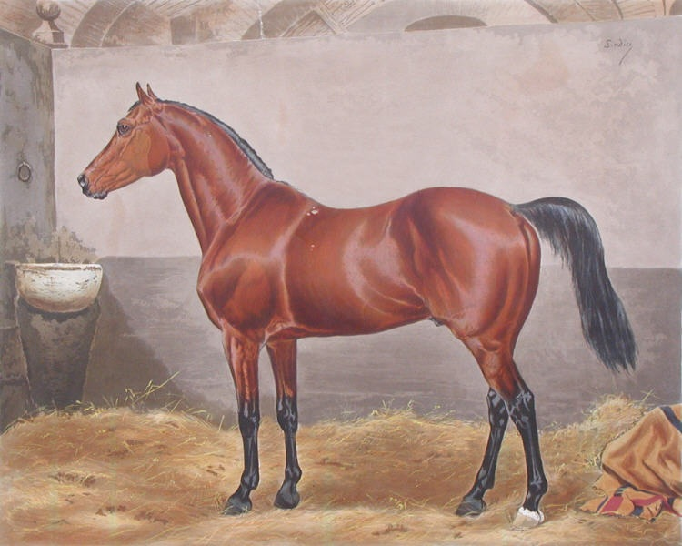 Painting of the 1885 Epsom Derby winner Melton, by Eugene Tily.